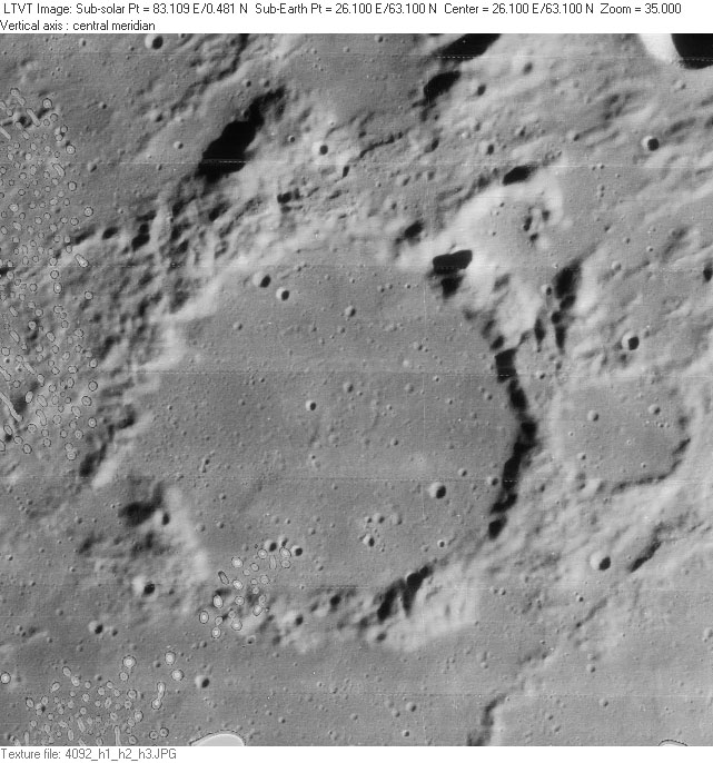 Crater Kane. Lunar Orbiter IV-176H. High resolution scan from USGS Lunar Orbiter Digitization Project remapped to north-up aerial view by LTVT